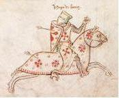 The Battle of Bouvines 1214, Hugh of Boves flees from the Battlefield. (Cambridge, Corpus Christi College, MS 16 fol. 37)